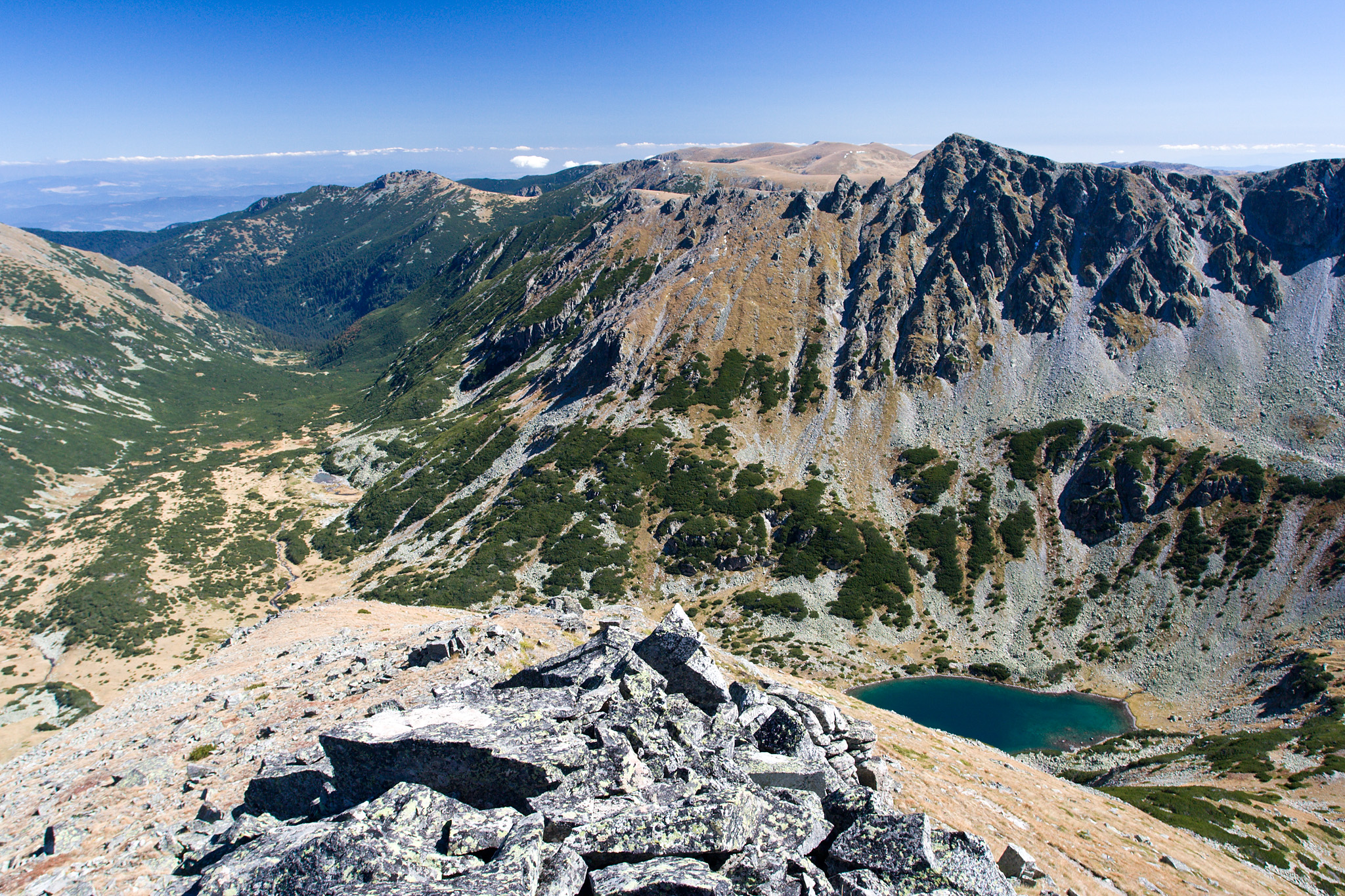 Marichin cirque in Rila mountain, Bulgaria, as seen from the Goljam Bliznak peak.